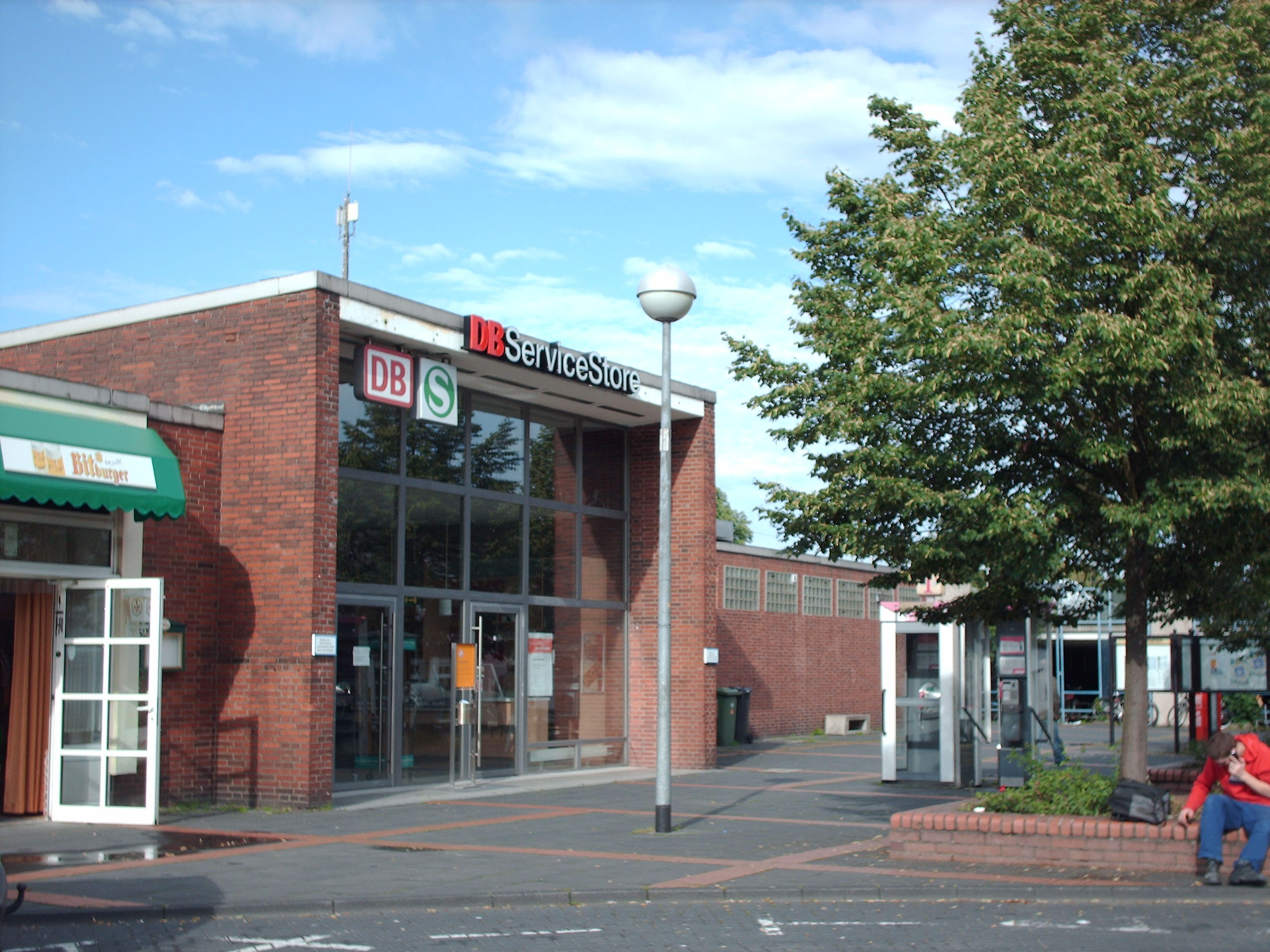 Eitorf station, Eitorf, Germany check usage